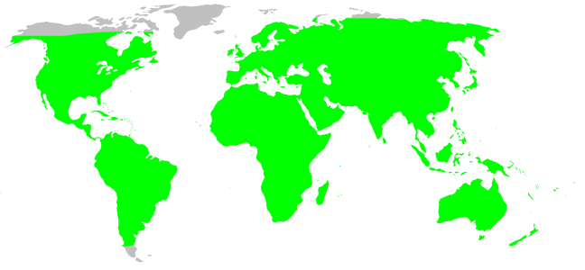 Agelenidae habitat distribution, drawn after Platnick: World Spider Catalog 7.0. This is not at all a precise rendering of the distribution! If you have better information, please replace this map, or send me the info, and i will redraw it.